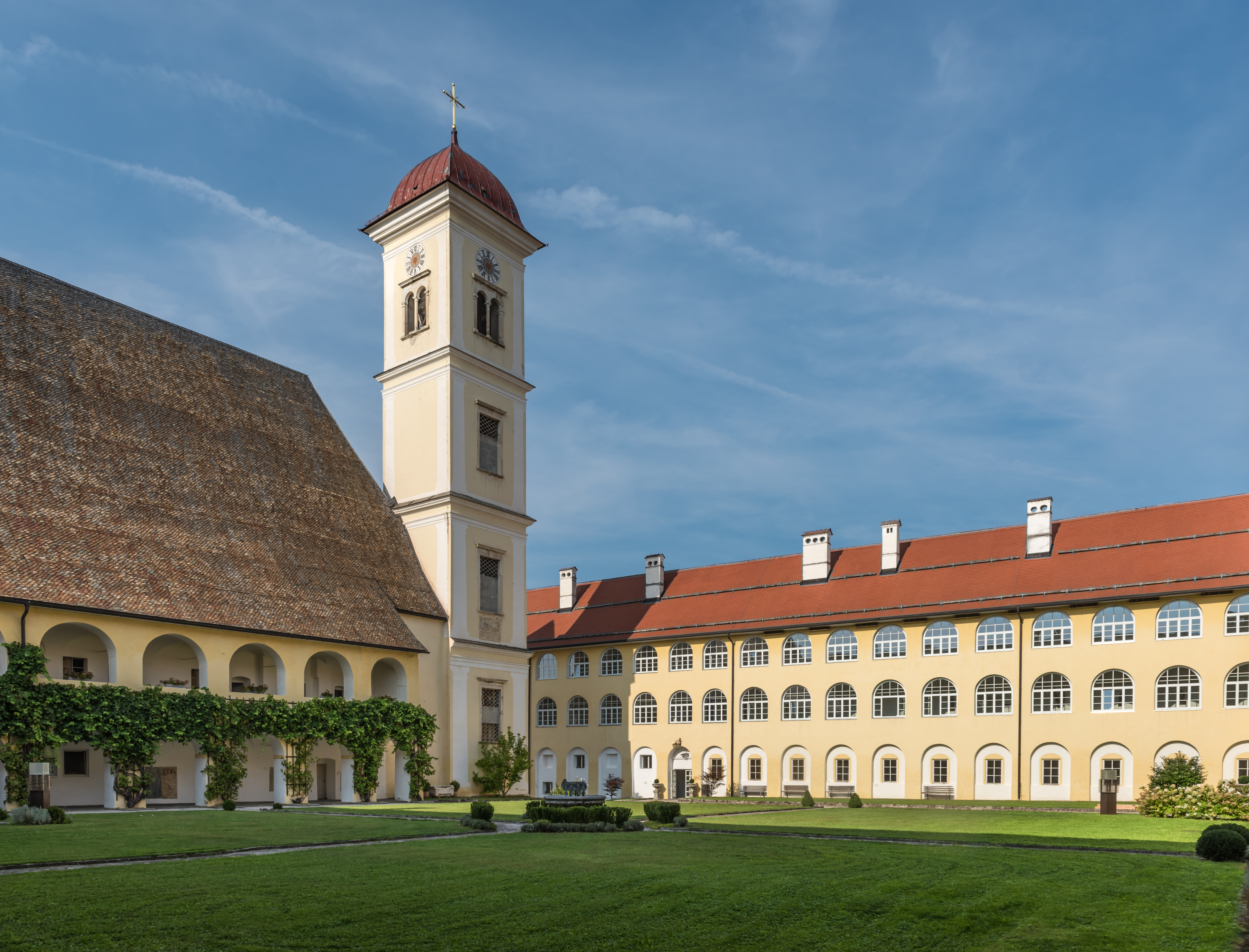 Parish and former collegiate church Saint George amidst the monastery yard on Schlossallee #2, municipality Sankt Georgen a. L., district Sankt Veit, Carinthia, Austria, EU